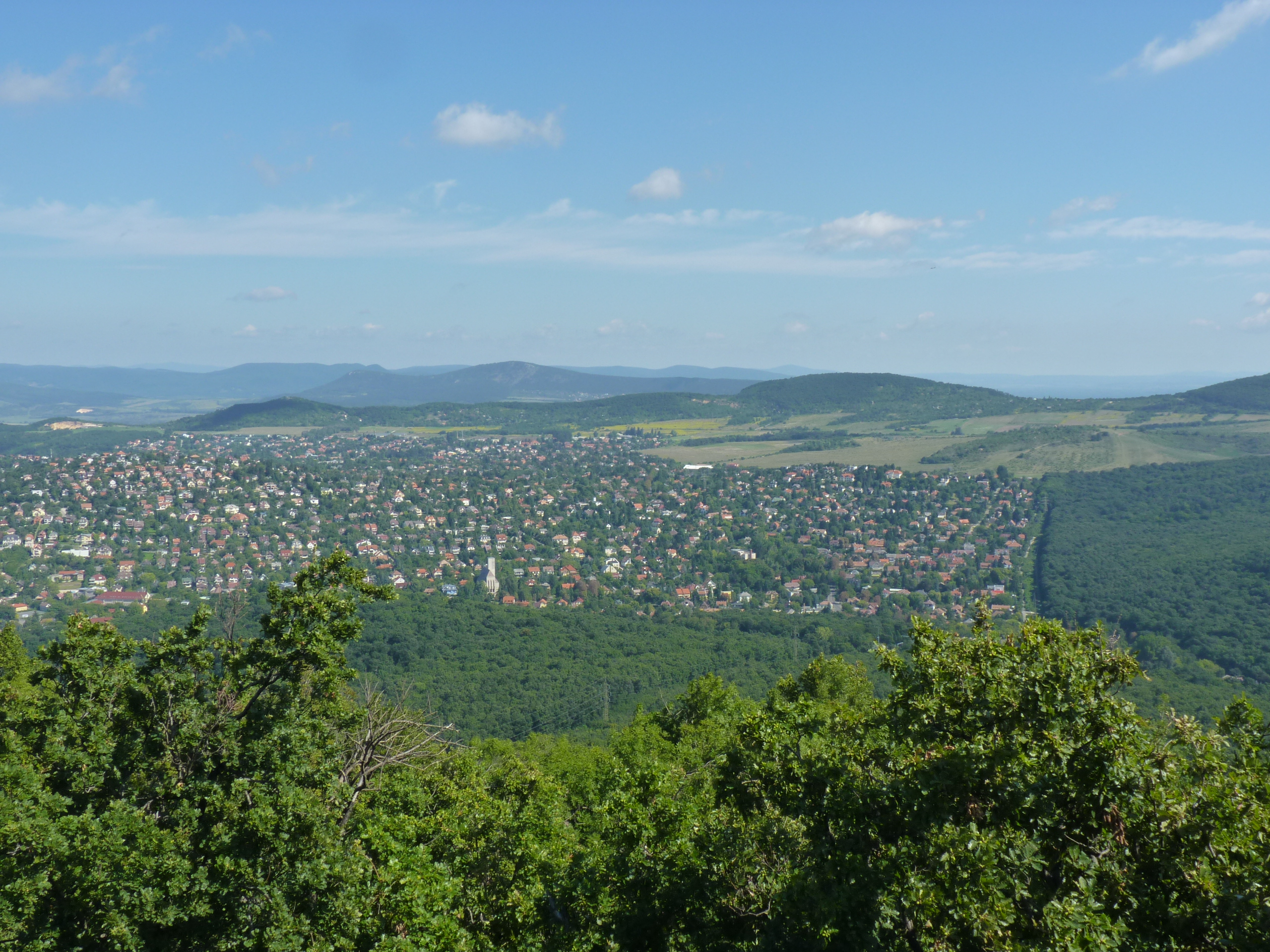 View from Nagy Hárs Hill